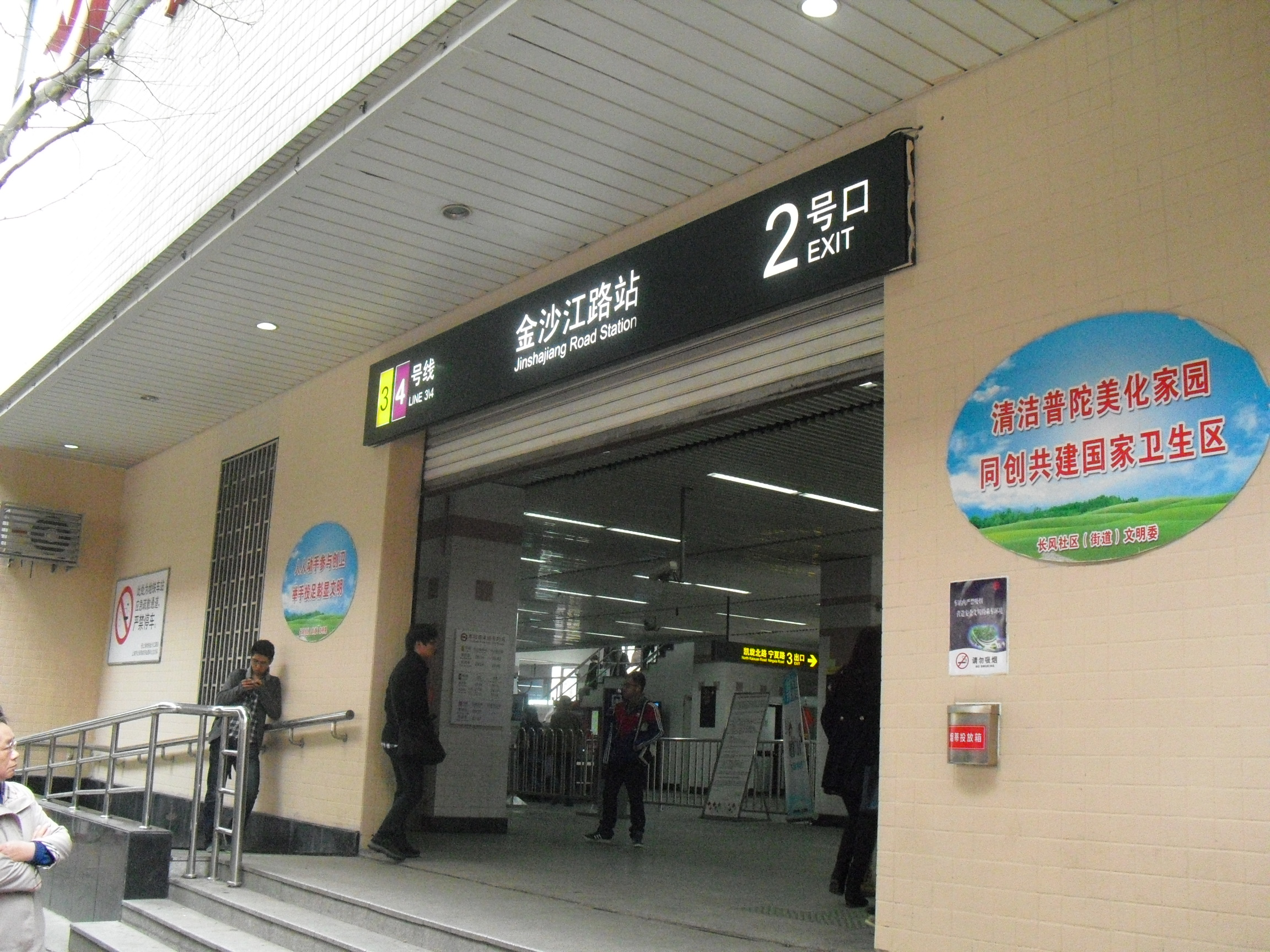 The Exit2 of Jinshajiang Road Station.